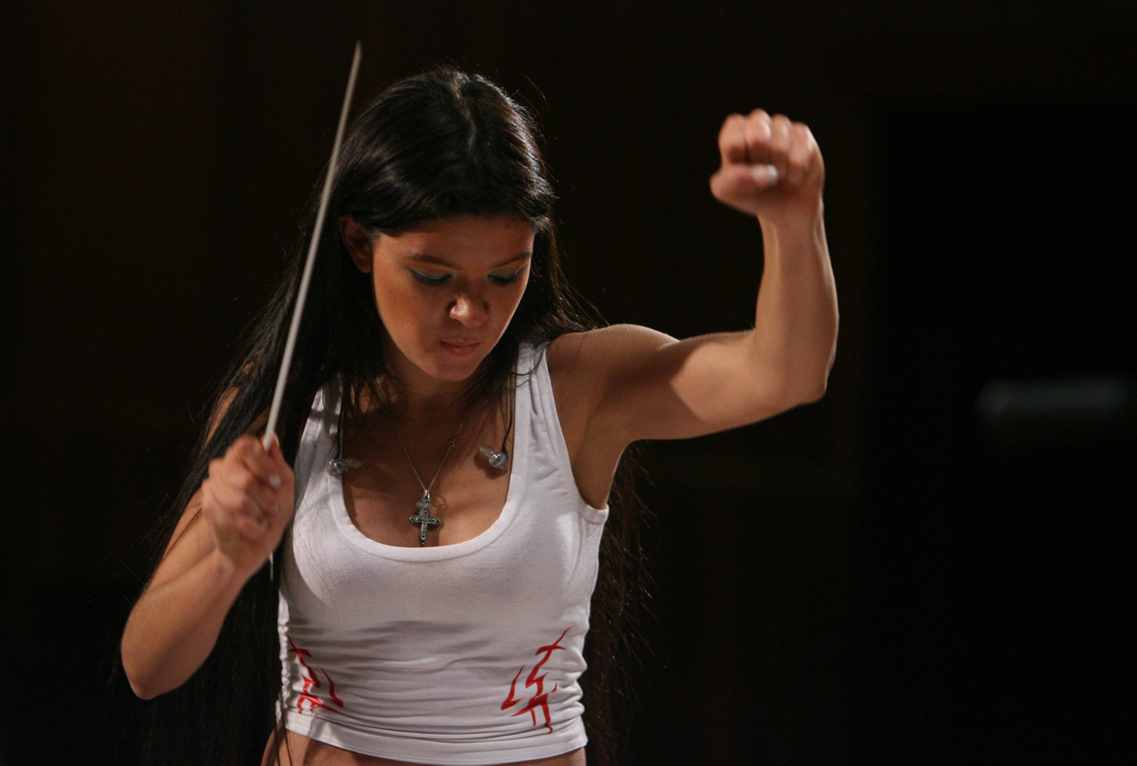 Ruslana, the winner of the 2004 Eurovision Song Contest, proves her higher education in music by conducting a symphonic orchestra in Ukraine (2006).